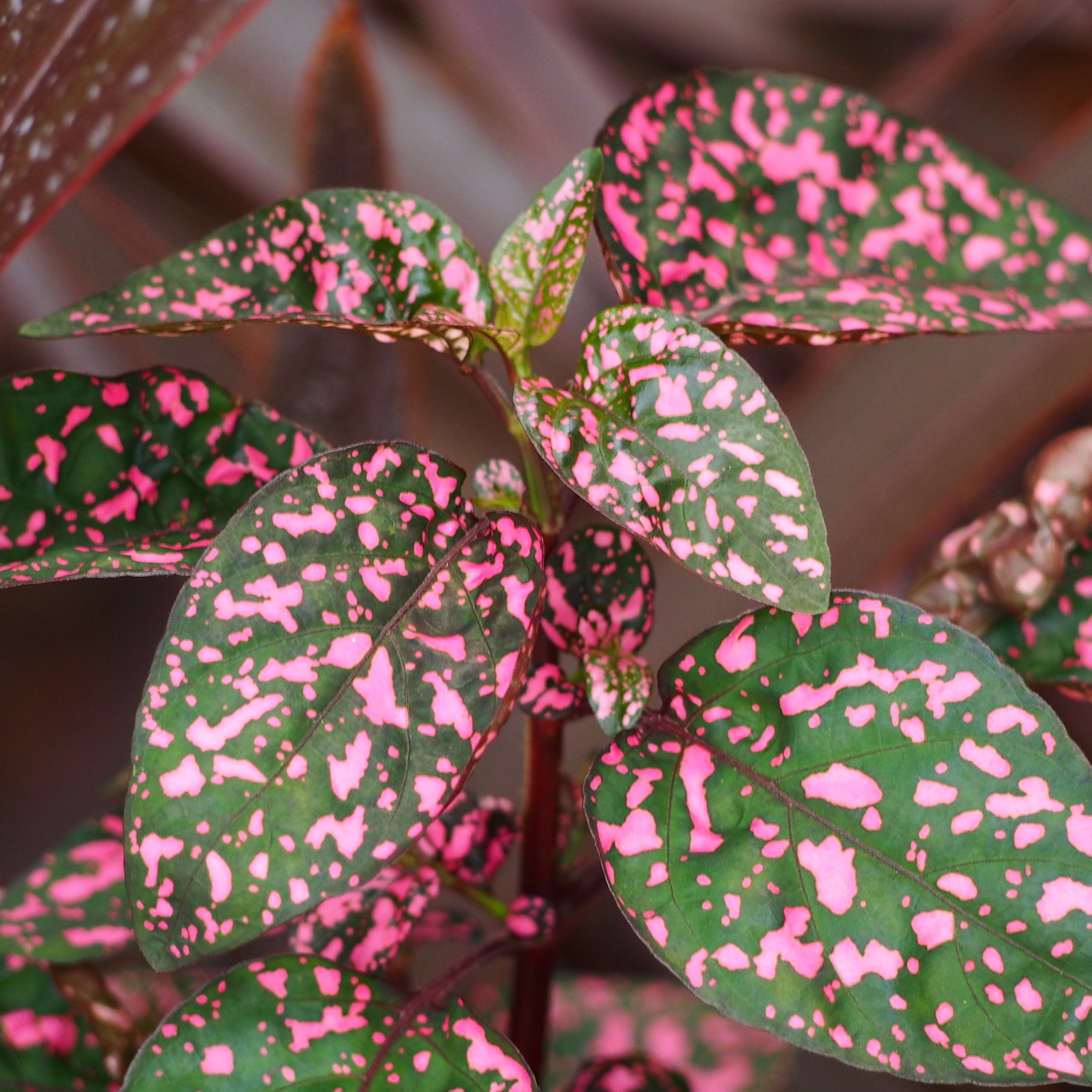 Hypoestes phyllostachya 'Rose Splash', cultivated in Wrocław University Botanical Garden, Wrocław, Poland.